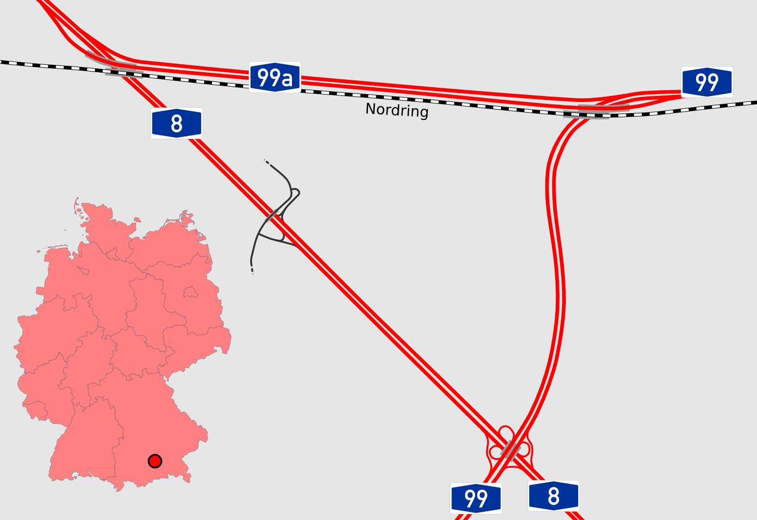 Map of Highway crossing München-West ( Munich-West )